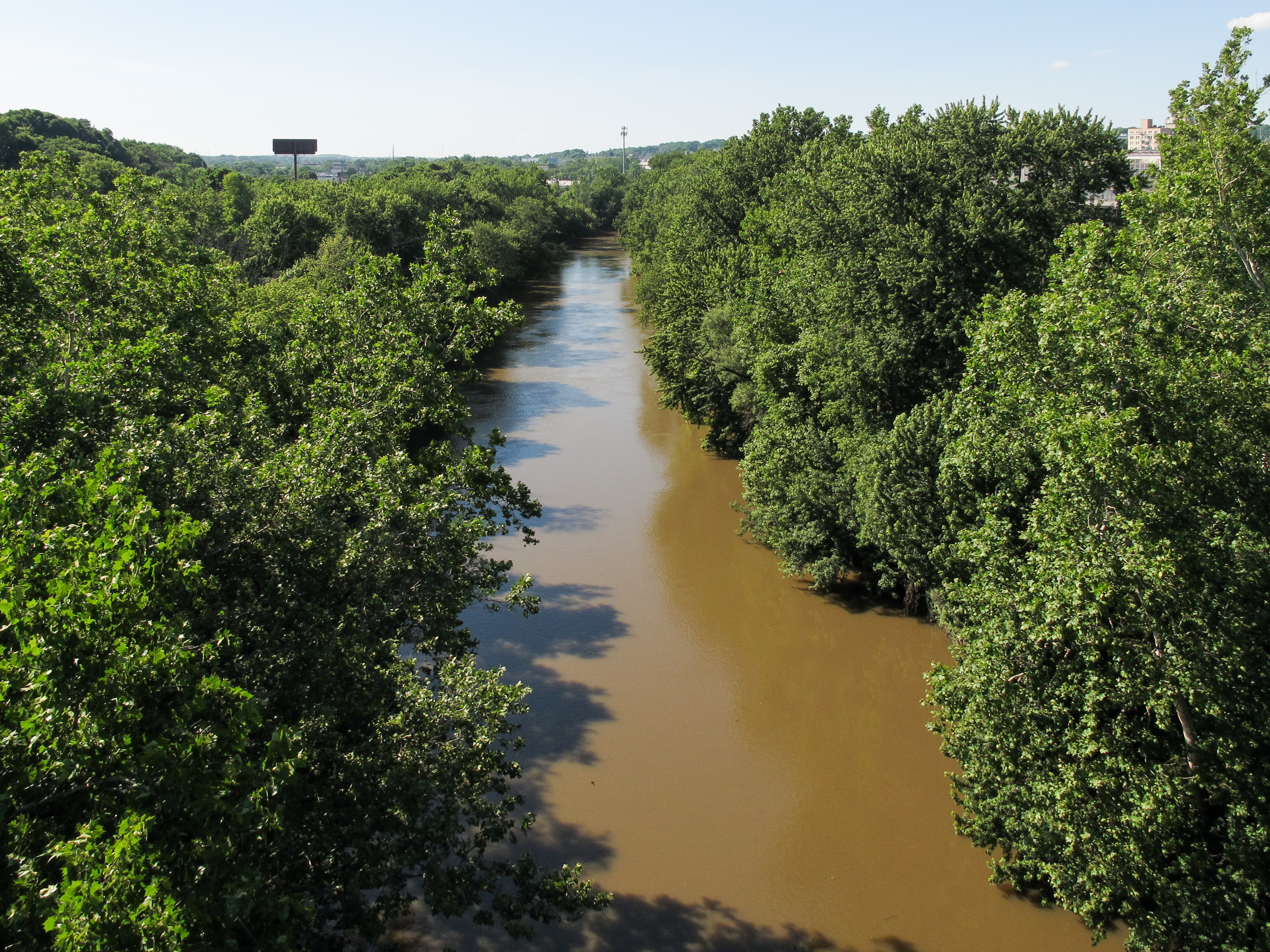 The Mahoning River as viewed from the west side of the Market Street Bridge in Youngstown, Ohio